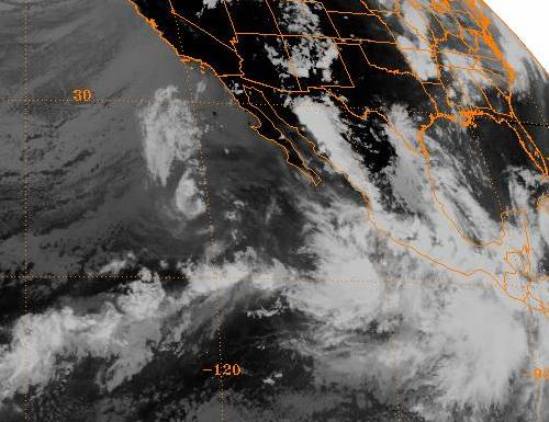 August 7, 1995 Satellite image of the Eastern Pacific Ocean, including Tropical Storms Erick and Flossie